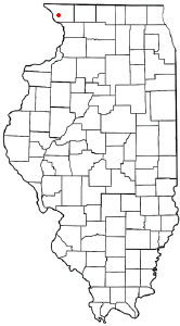 A red dot placed on the approximate location of Rodden, a ghost town. Adapted from Seth Ilys's dot on maps.